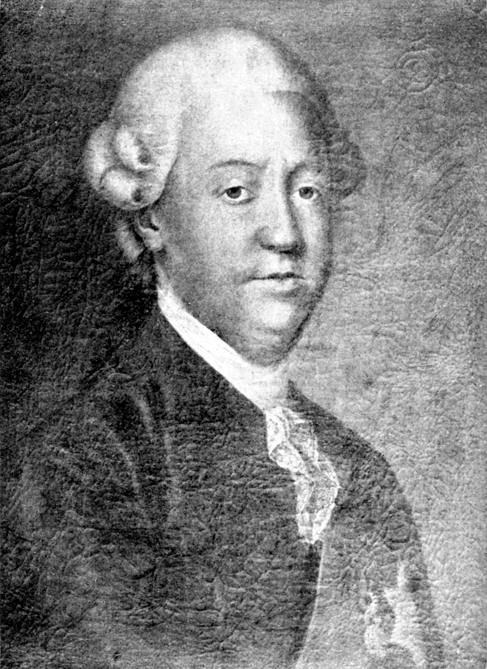 Portrait of Prince Charles, middle age, elbow up